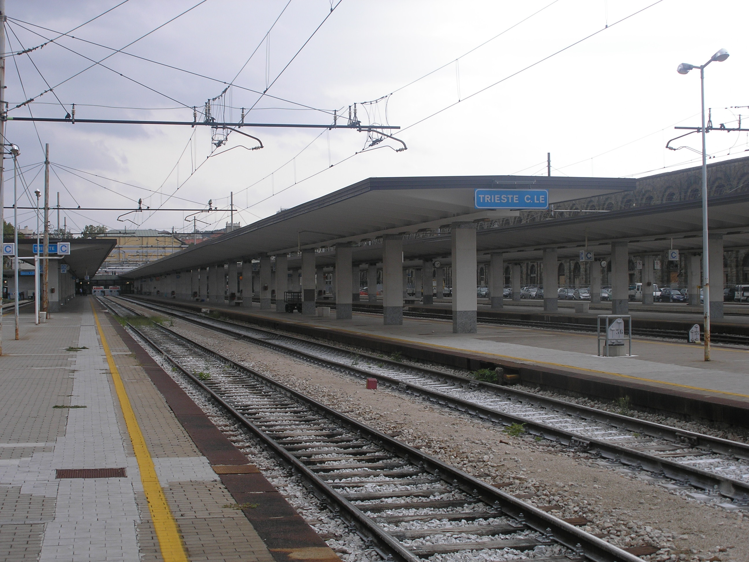 Railway station in Trieste, Italy